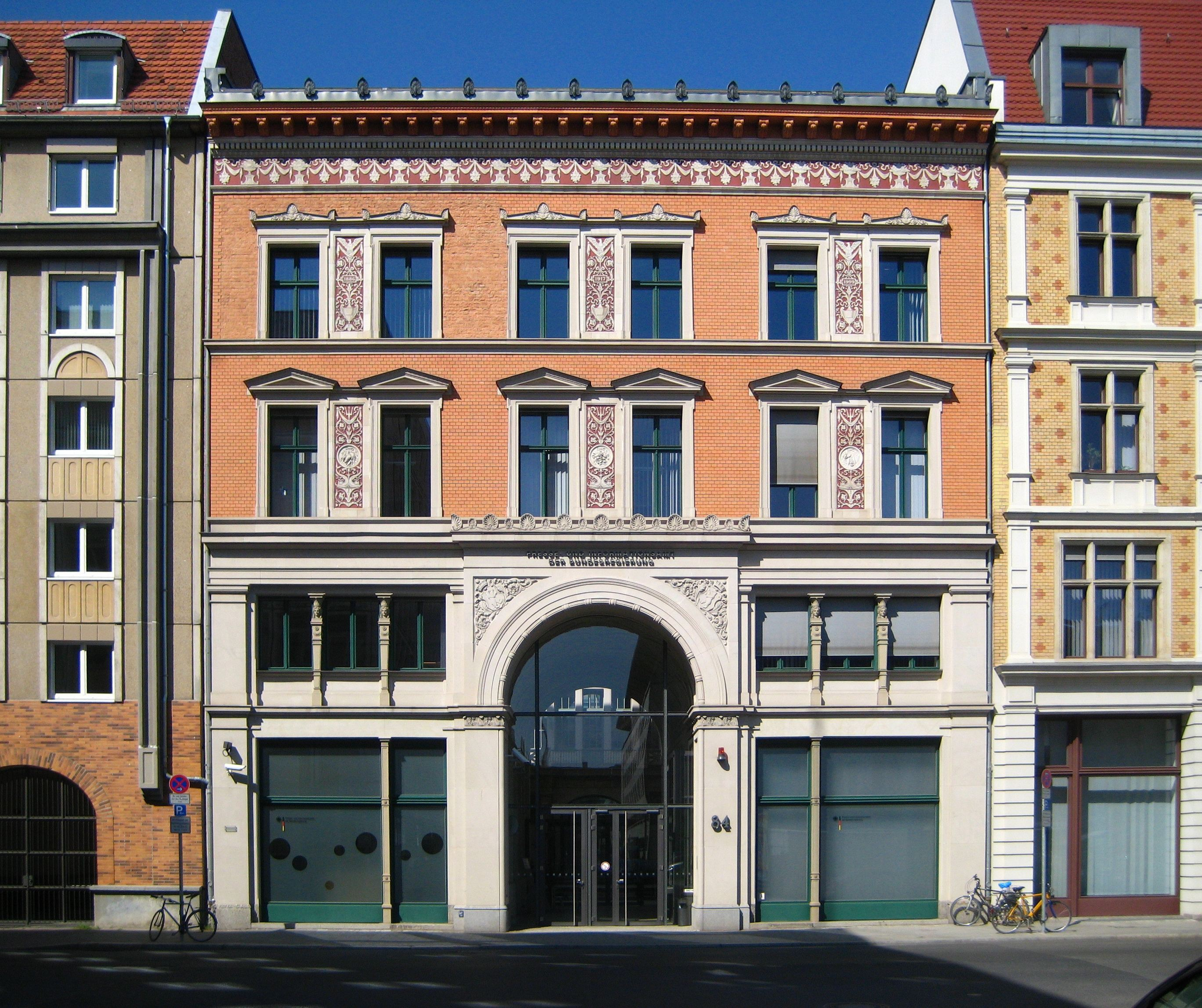 Portal to the former Market Hall IV at Dorotheenstraße 84 in Berlin-Mitte, today entrance to the Federal Press Office of the German government.